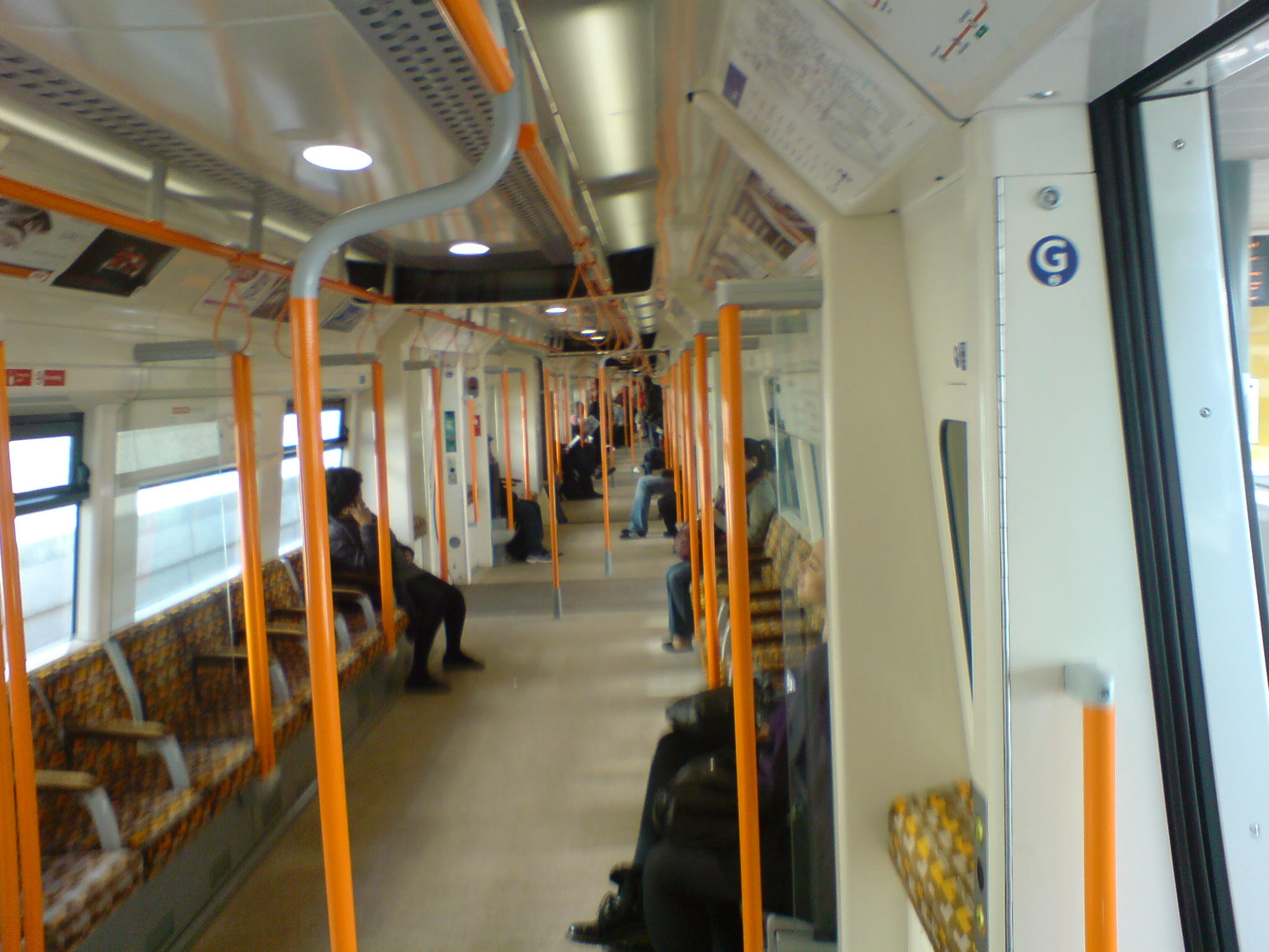 Interior of the London Overground train